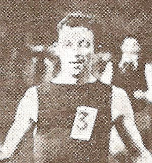 Michel Théato, winner in the marathon run at the 1900 Olympic Games photography, adapted reproduction, no restrictions on use